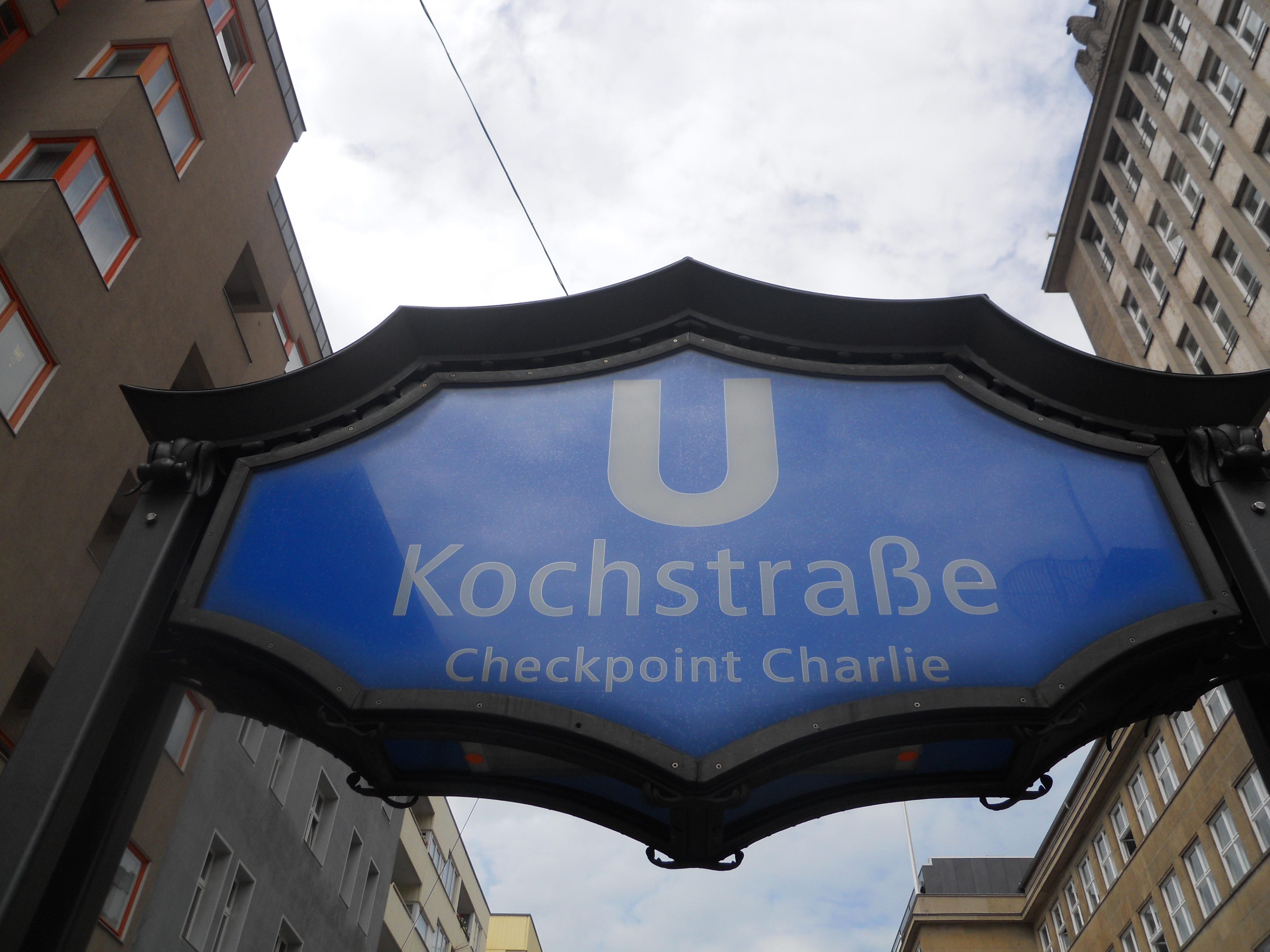 Entrance sign of Berlin's underground station "Kochstraße", Berlin, Germany